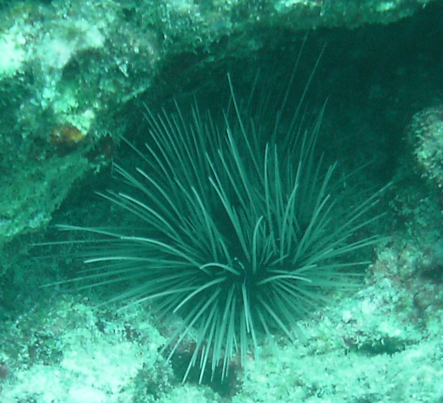 Diadema antillarum with unusual grey spines (Juvenile) at Snapper Ledge (reef), Florida Keys. Taken March 2008.